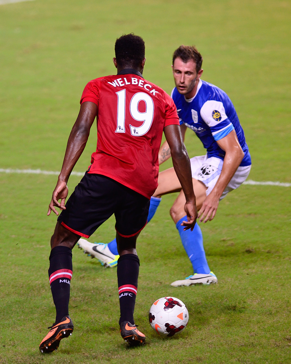 Fernando Recio (2 August 2013 Manchester United Asia Tour 2013, Kitchee vs Manchester United, Hong Kong Stadium)